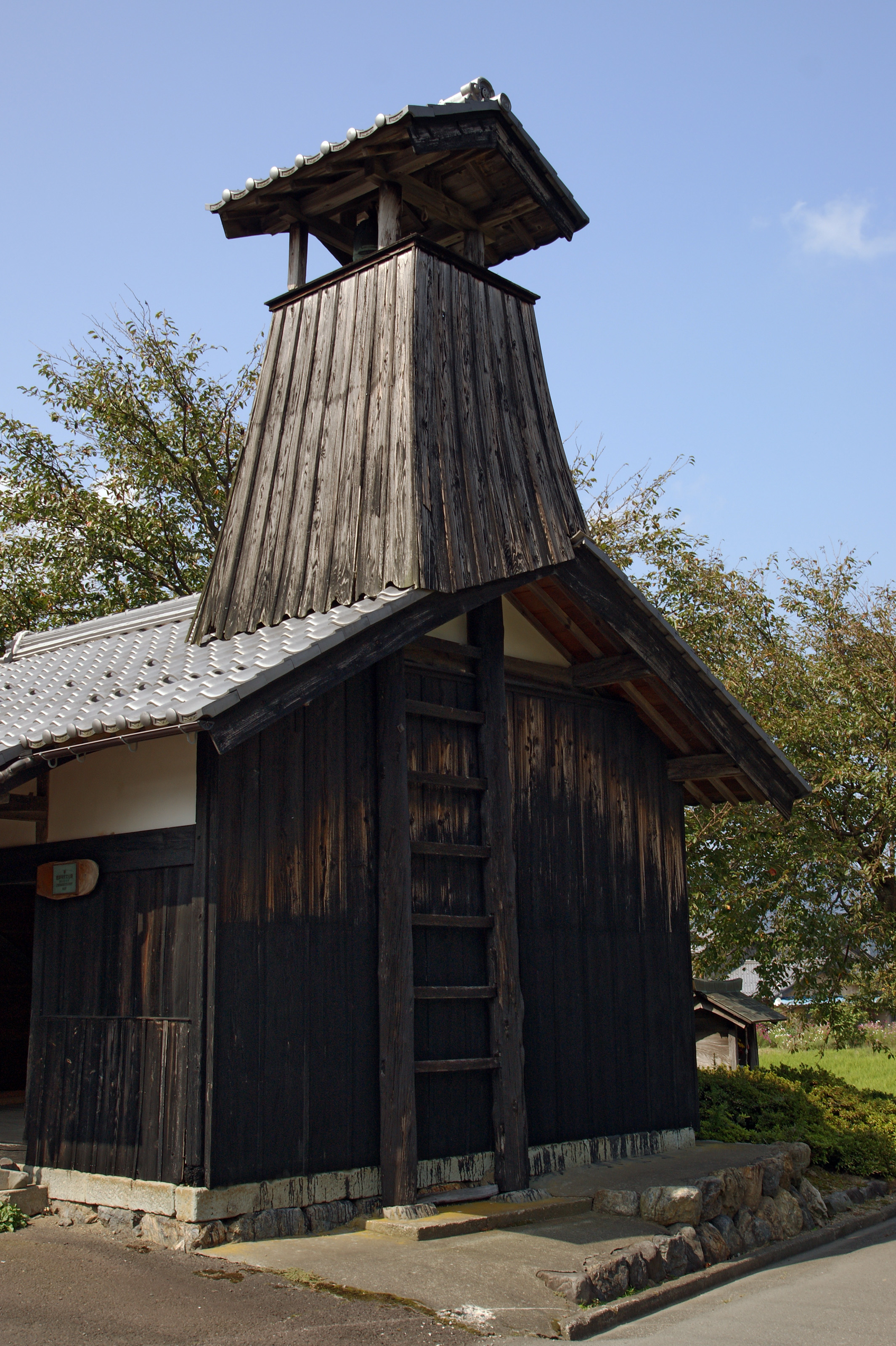 Miyakeku-hinomiyagura, Wakasa, Fukui prefecture, Japan